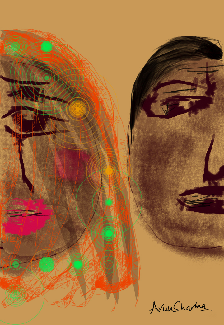 Simple India, simple people